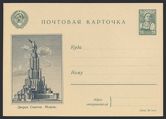 USSR 1941 20 kopek unused postal card, green on chrome yellow, showing the Palace of Soviets. Picture blue-grey.